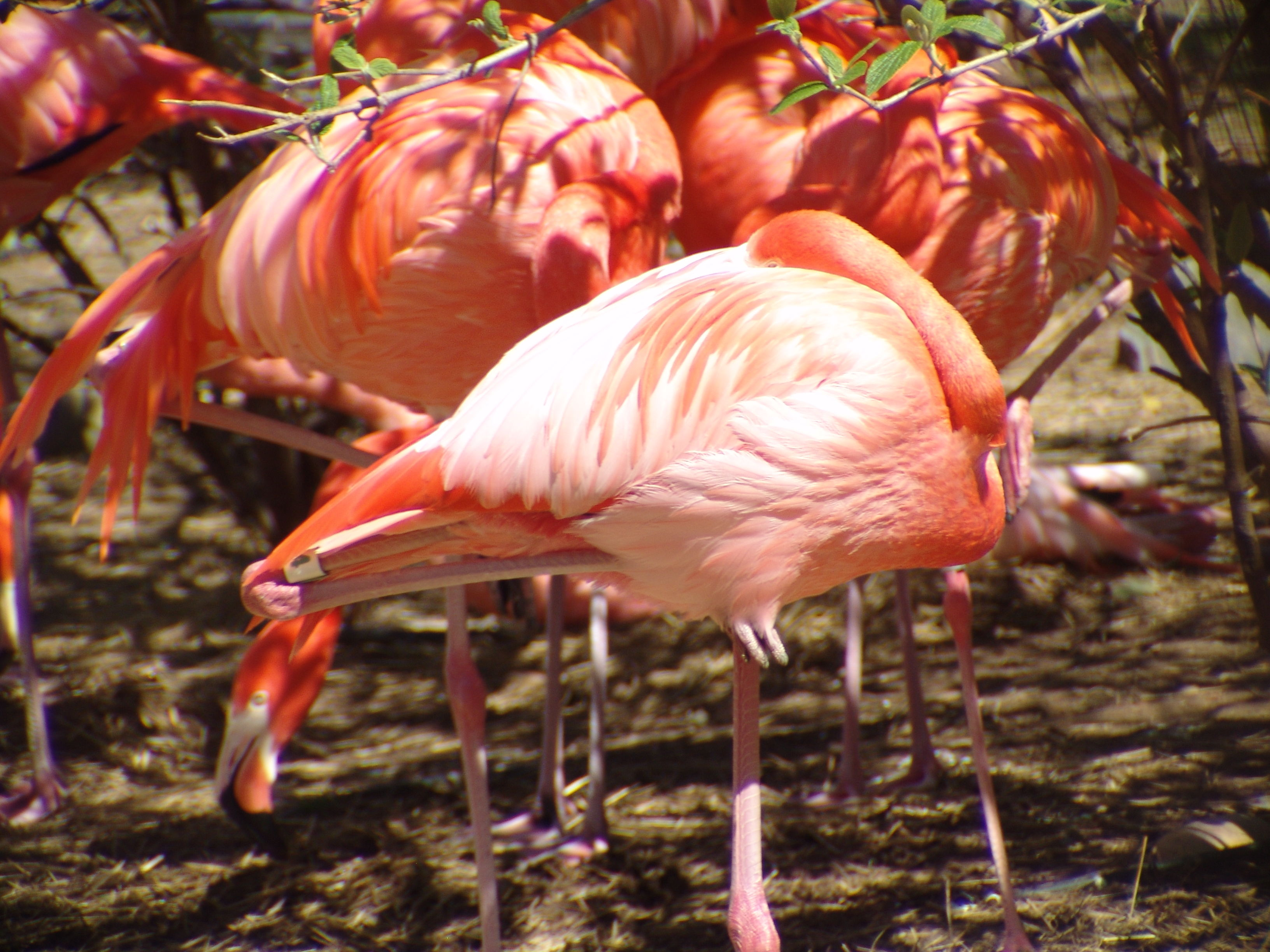 Phoenicopterus ruber stands on one leg for body temperature regulation